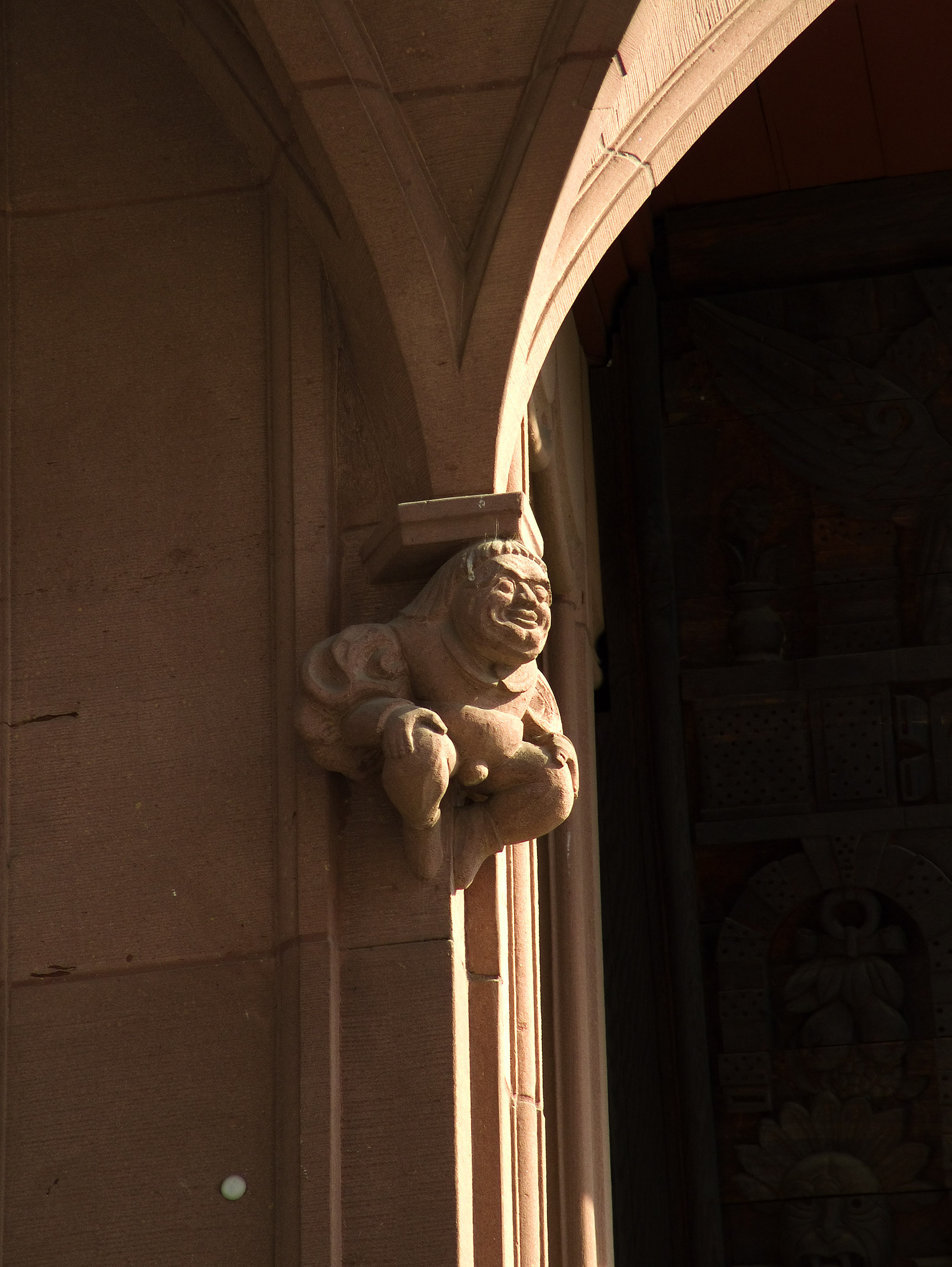 Frankfurt on the Main: Town-house Großer Engel (Great Angel), corbel of the corner as seen from the Römerberg